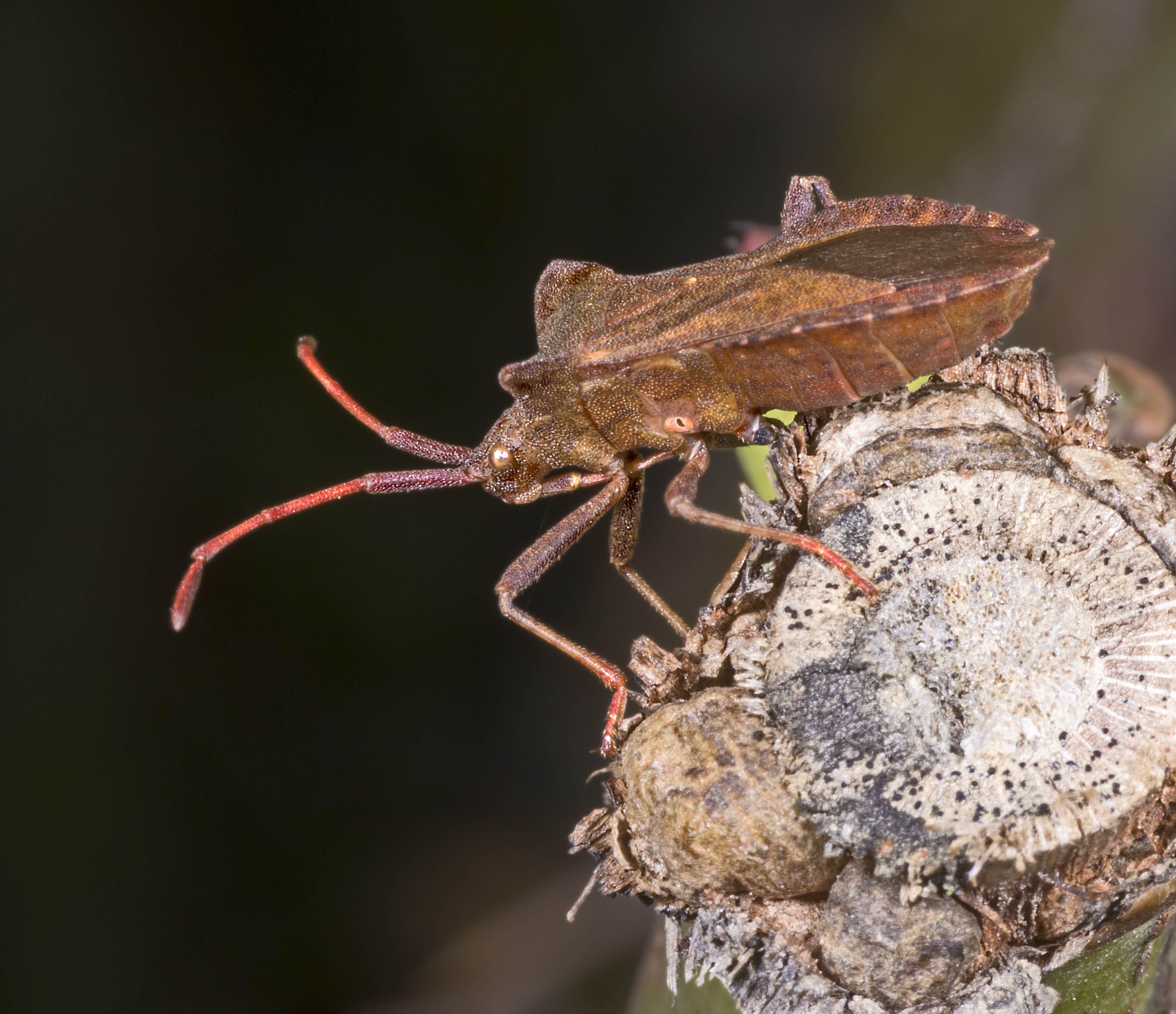 Dock bug, efferent of scent gland.